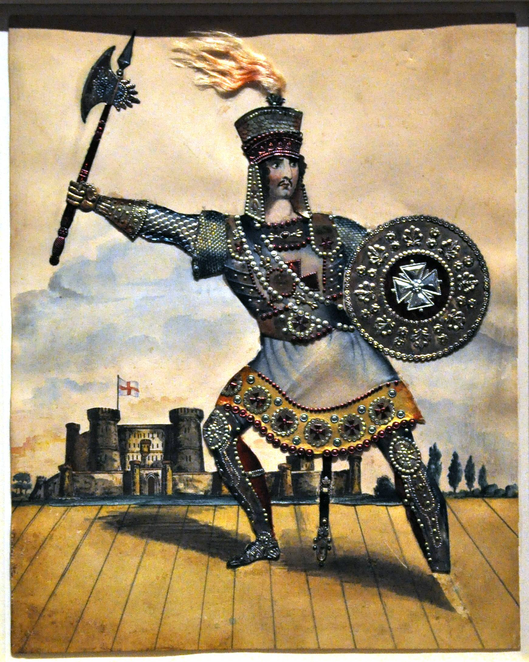 John Thomas-Haines as Brian de Bois-Guilbert in Ivanhoe, tinsel print, about 1830, paper and metal Victoria and Albert Museum, London, Museum number: S.2037-1986, Link